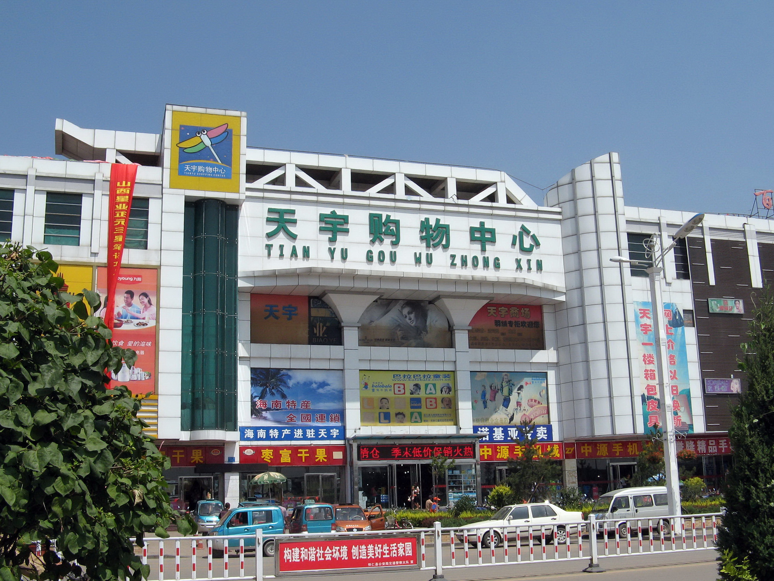 Tianyu Shopping Mall, Huairen, Shanxi, China